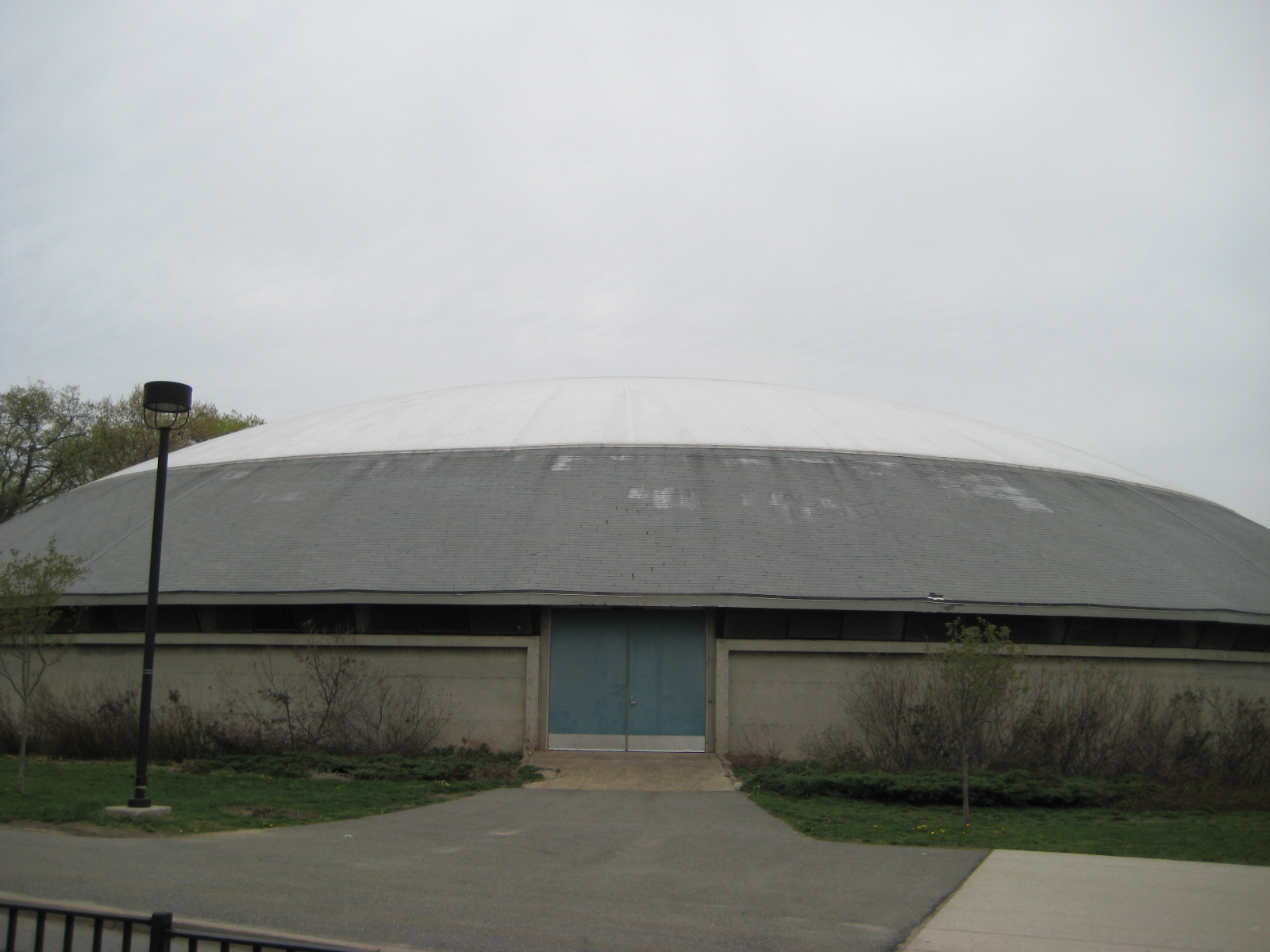 Sports stadium at Lexington High School; Lexington, Massachusetts, USA.